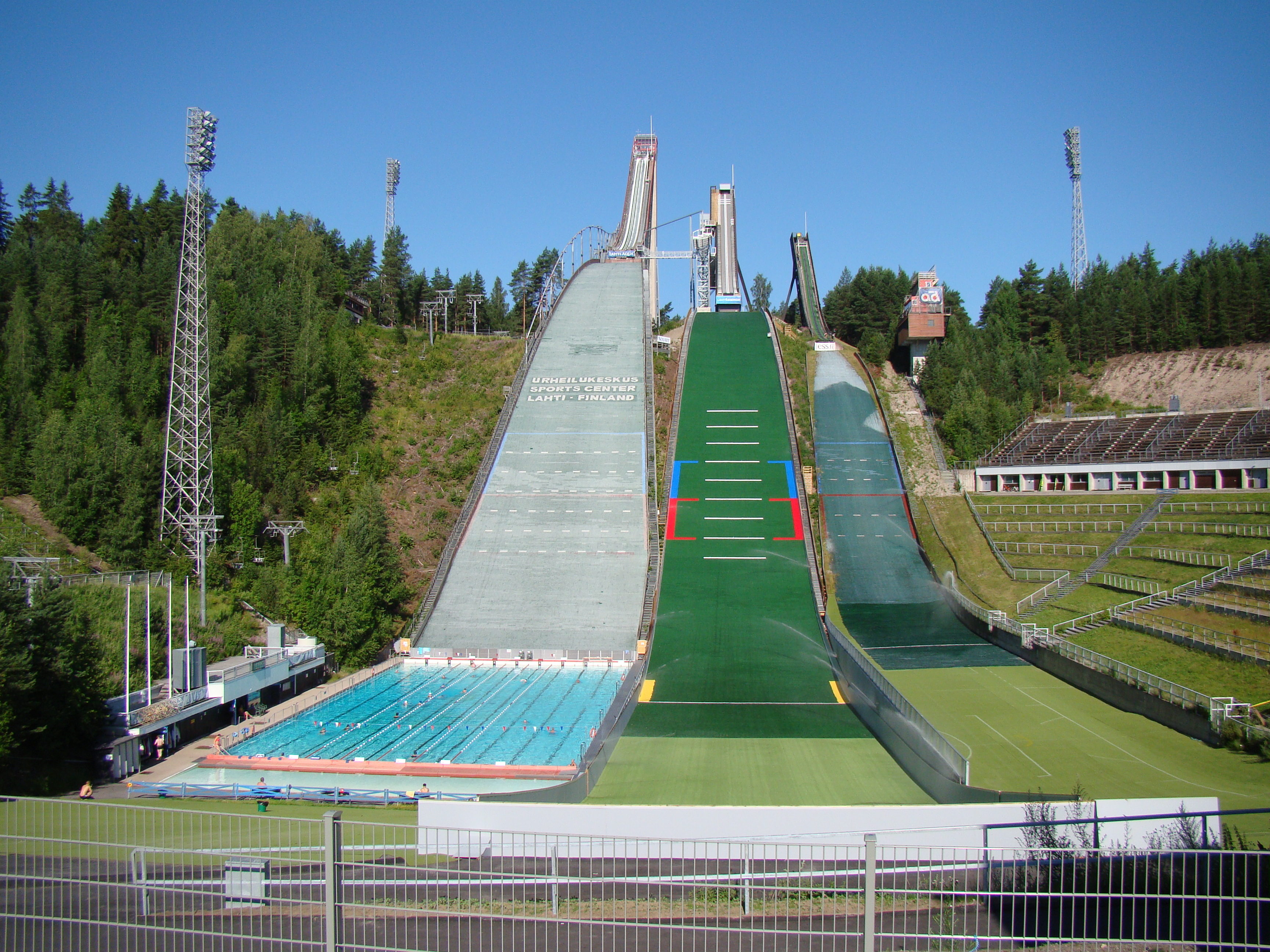 Salpausselkä: Lahti Ski Jumping Hills